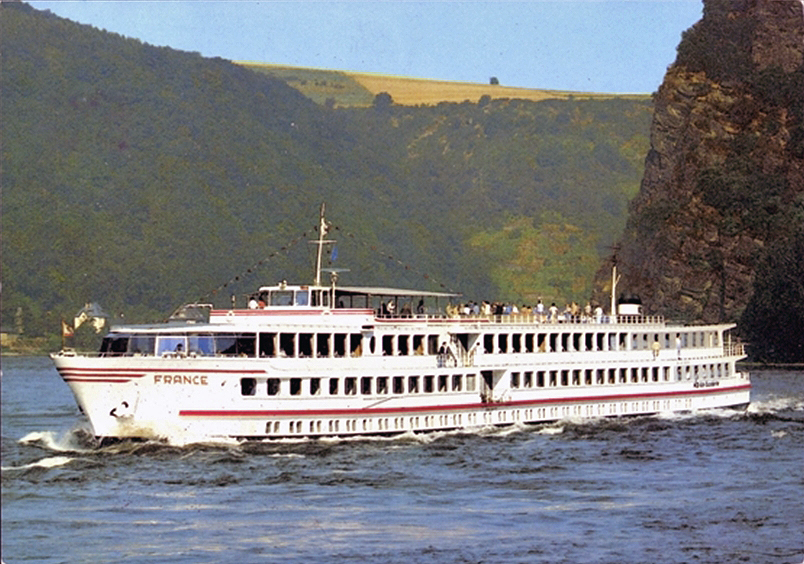 River cruise ship France